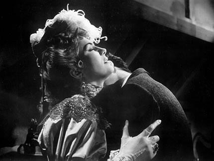 Photograph of Mecha Ortiz and Roberto Escalada in Safo, historia de una pasión (1943)